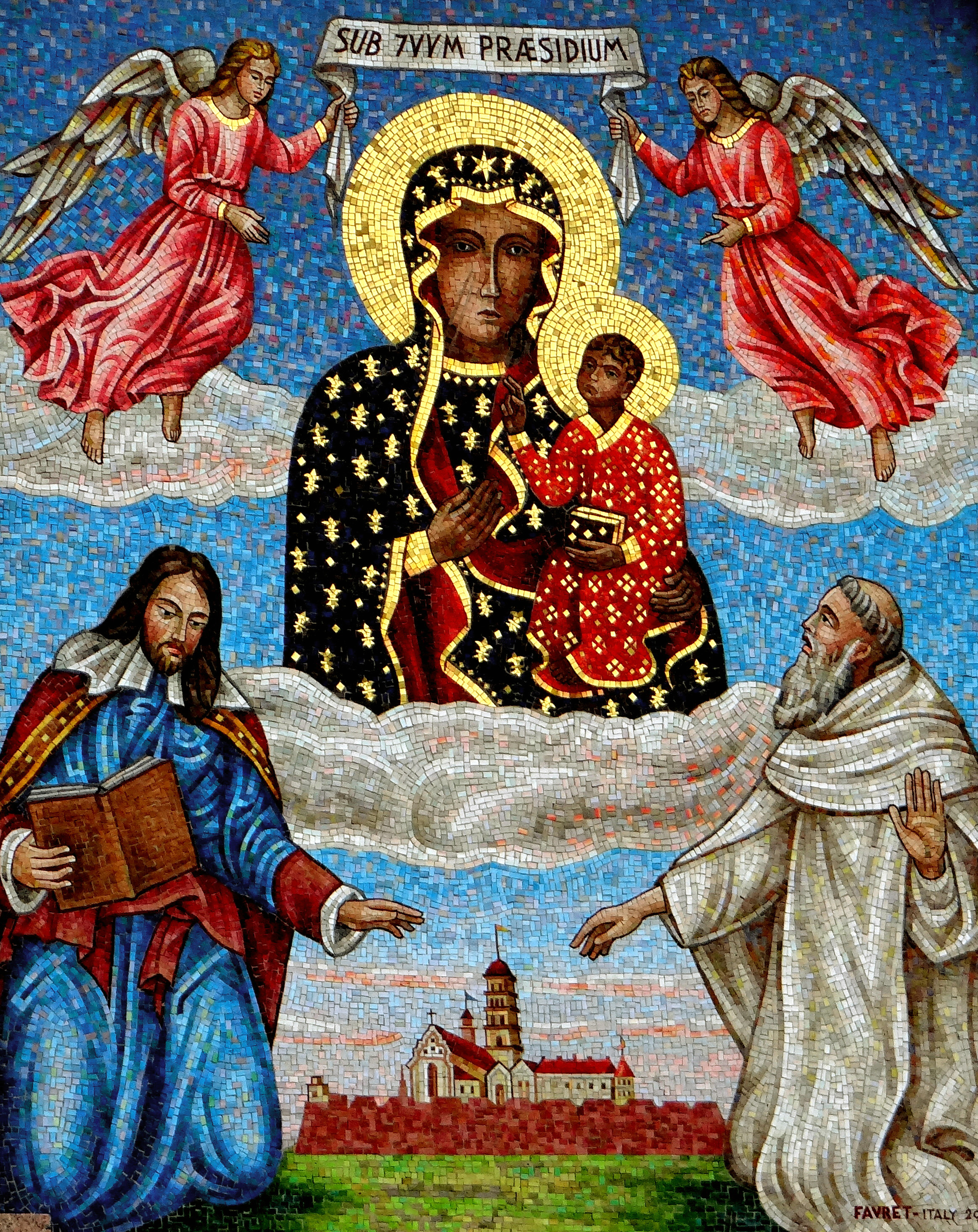 Black Madonna of Częstochowa, church mosaic; Poland